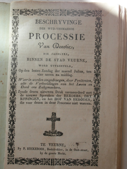 Title page of the 1835 Belgian (Flemish) catholic book, describing the yearly devotional procession in Veurne, Belgium. Published by P. Rijckeboer, Veurne. 54 pages. Google books